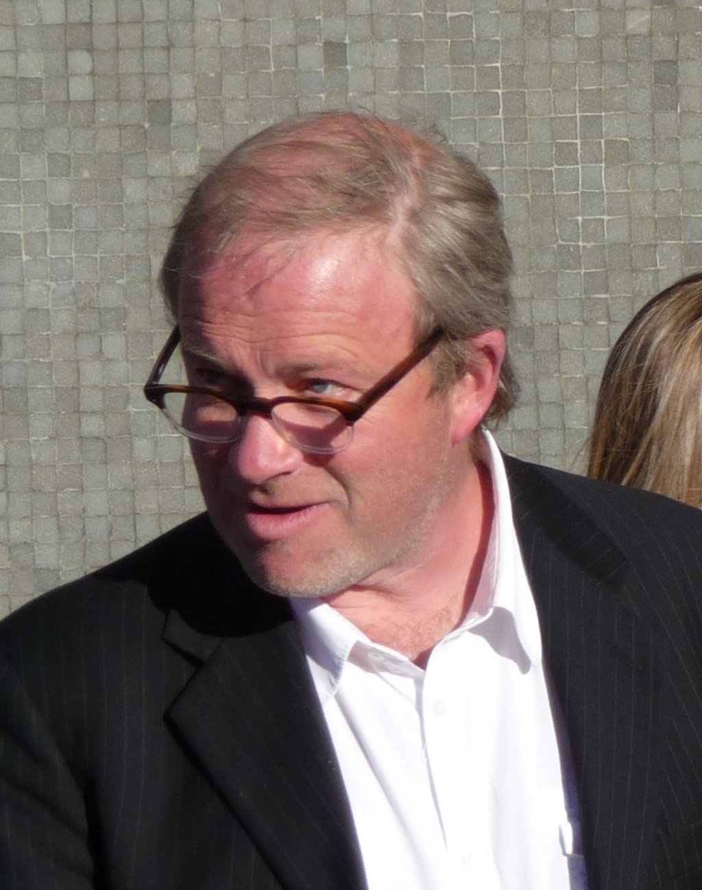 British comedian Harry Enfield at the 2009 BAFTA award ceremony in London.